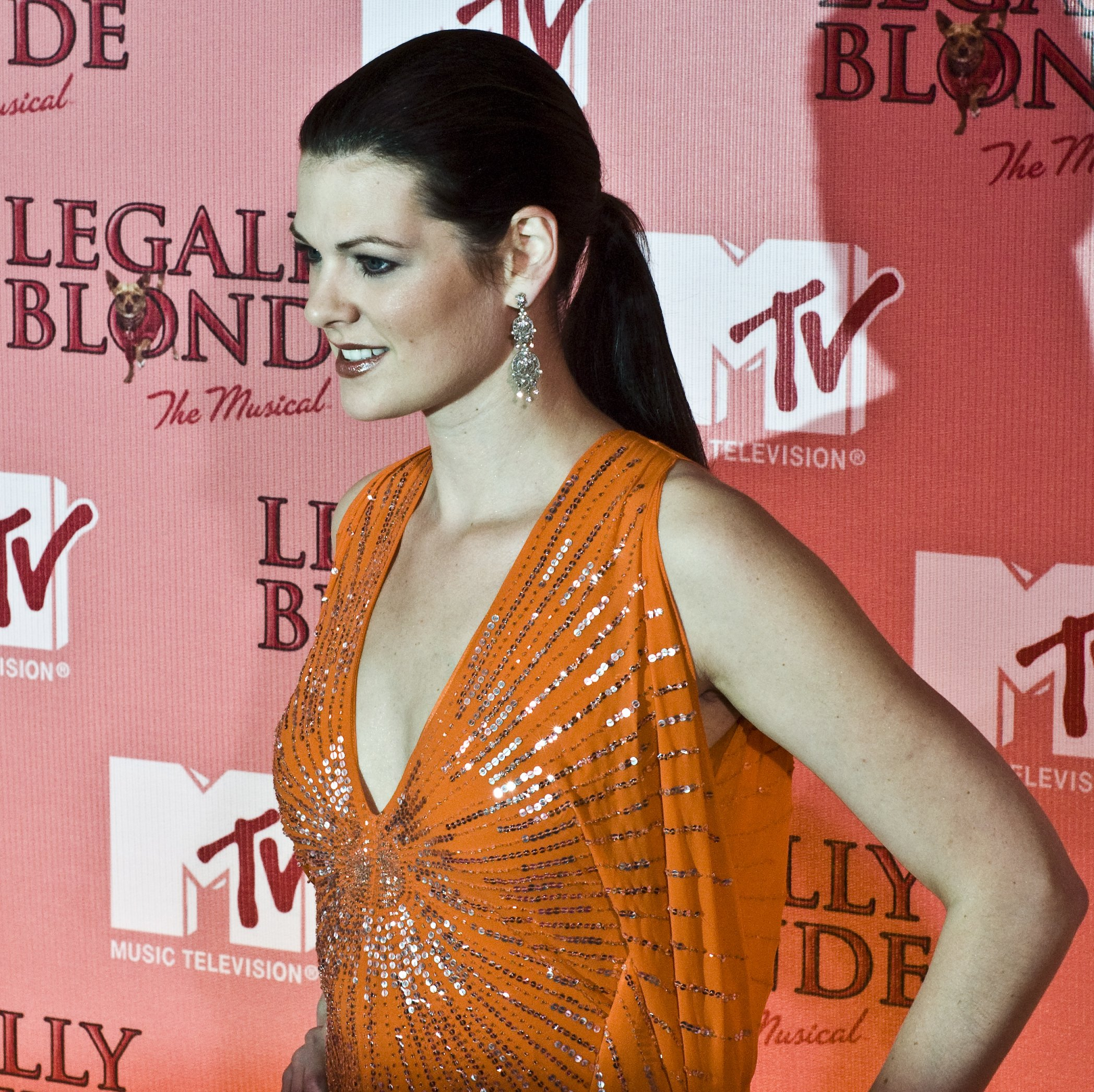 American actress and 1998 Miss America Katherine "Kate" Shindle, at MTV taping of live performance of Broadway musical Legally Blonde, to air in a few weeks on the network.